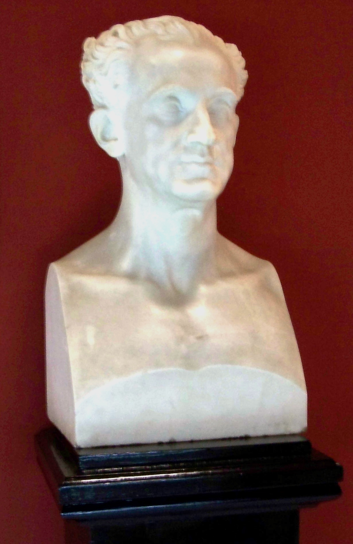 Bust of the first governor of modern Greece, Ioannis Kapodistrias (Ιωάννης Καποδίστριας). National Historical Museum, Athens, Greece.